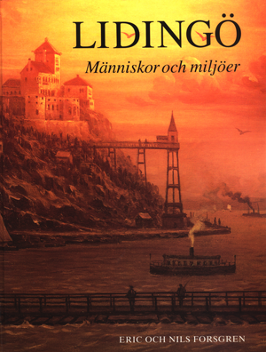 Front page of book about Lidingö Sweden showing a painting of Villa Foresta, by unknown artist around 1910.